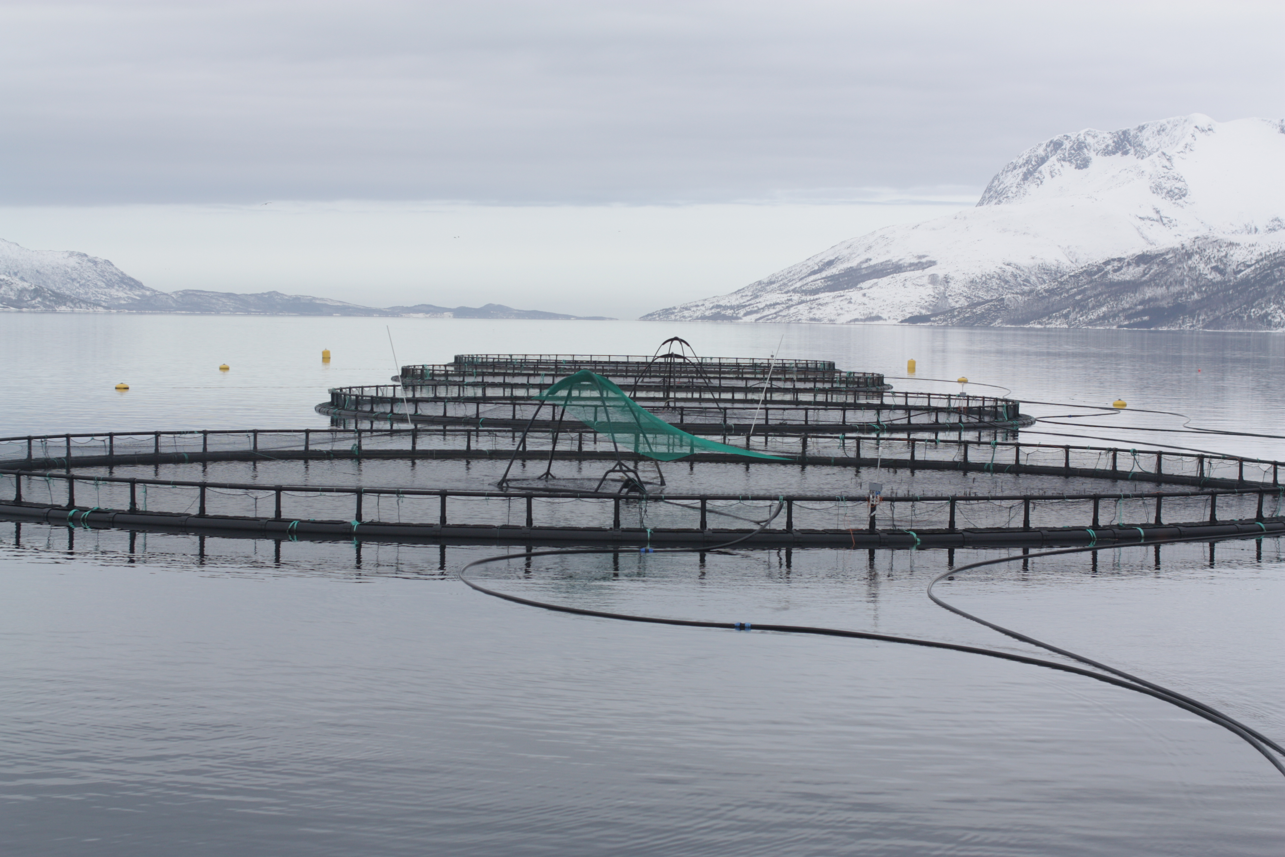 Fish cages in Velfjorden, Brønnøy, Norway.